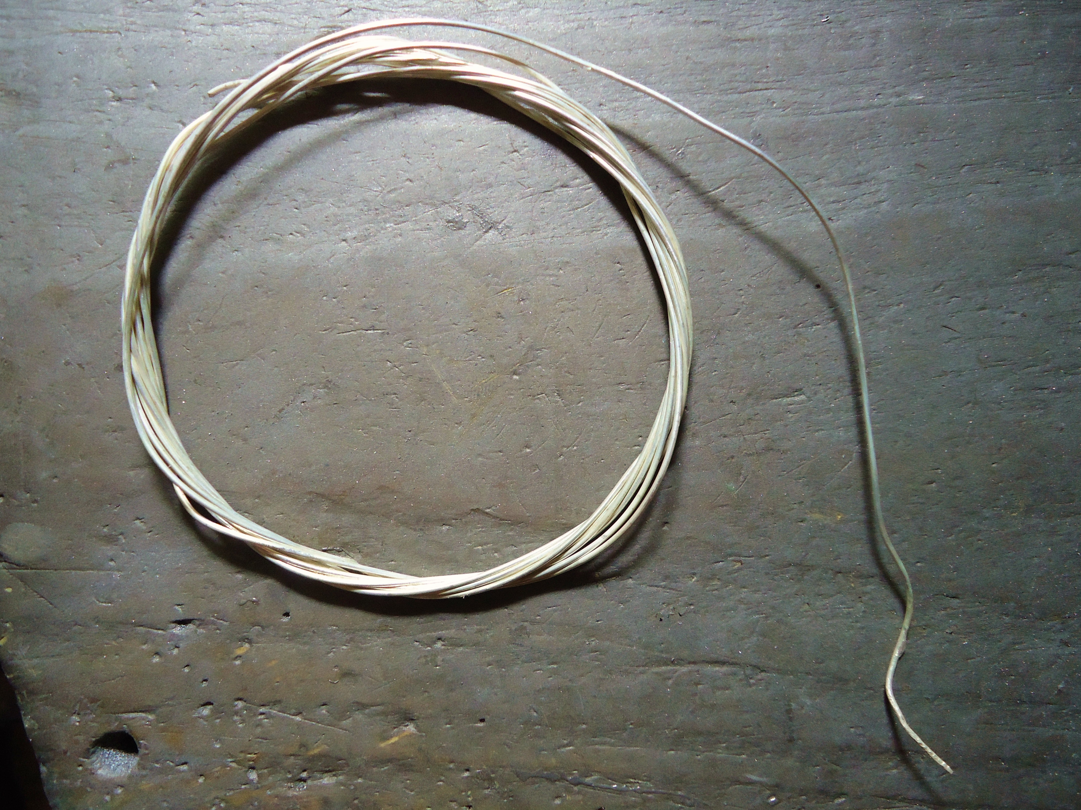 About 260 cm of 950-silver wire (diameter 0.80 mm). Mauro Cateb, Brazilian jeweler and silversmith.